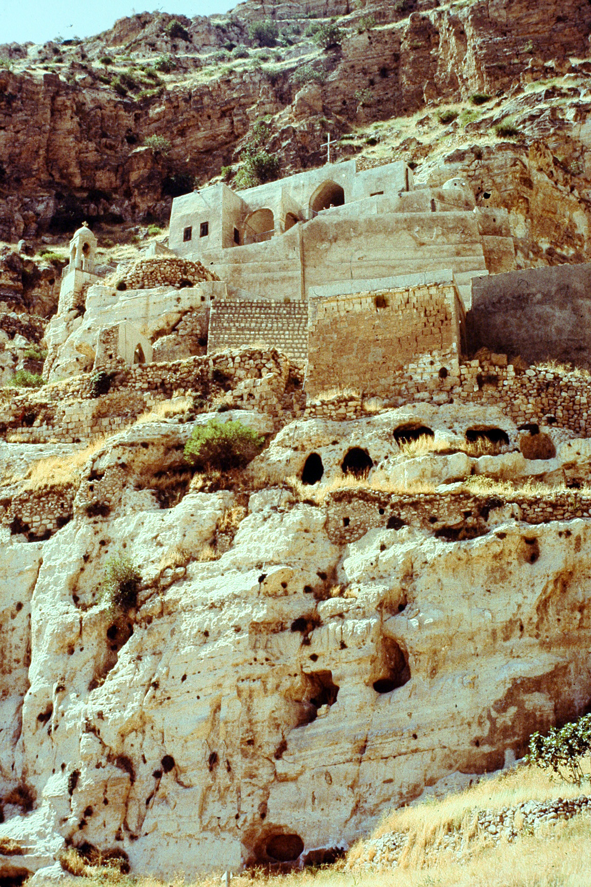 Rabban Hormizd monastery founded on VII century